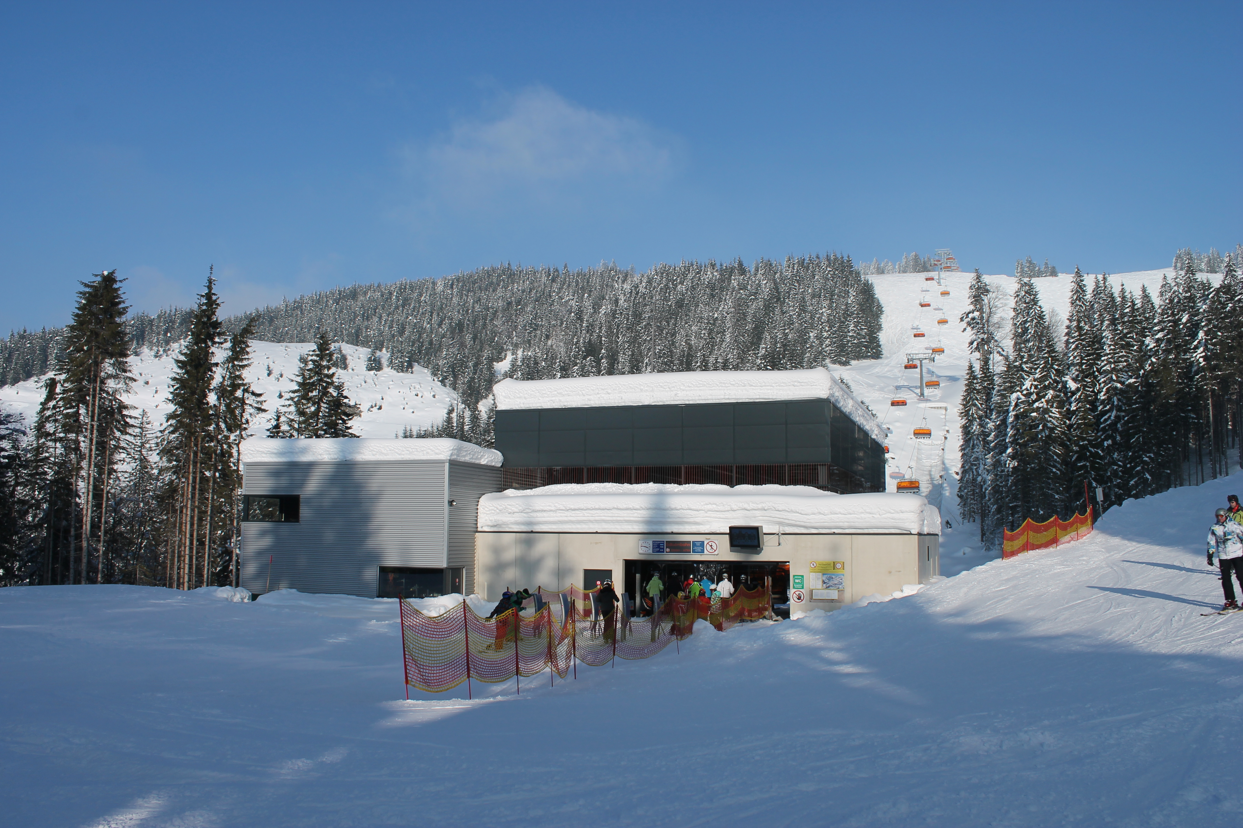 Bottom station of Edtalmbahn, ski resort Dachstein West, Salzburg